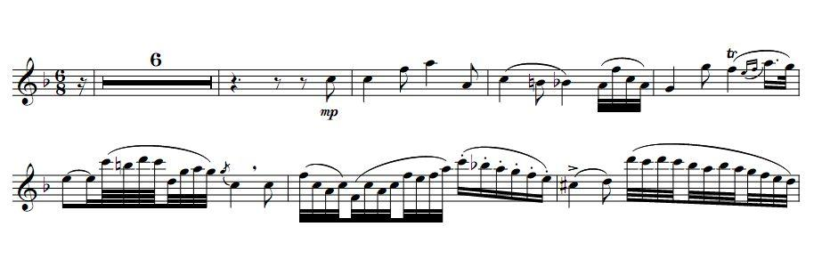 Fragment of music by Rossini